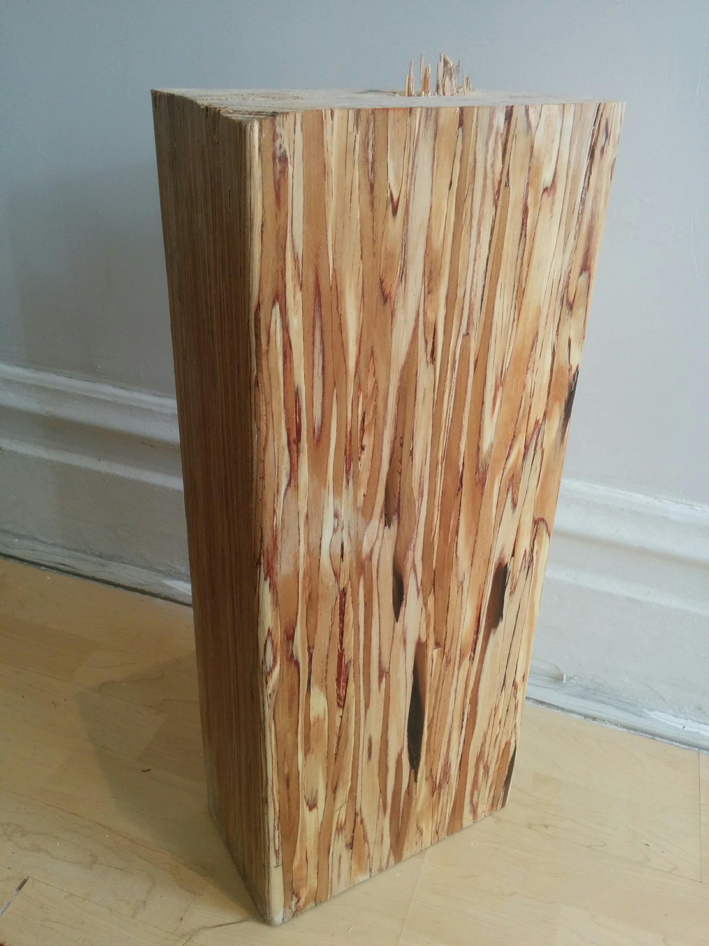 Parallam Parallel strand lumber beam leftover